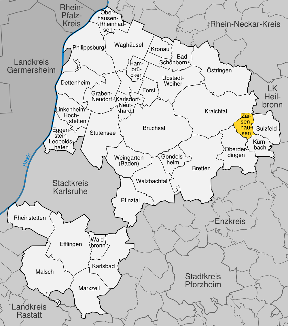 position of Zaisenhausen within distict of Karlsruhe, Baden-Württemberg, Germany